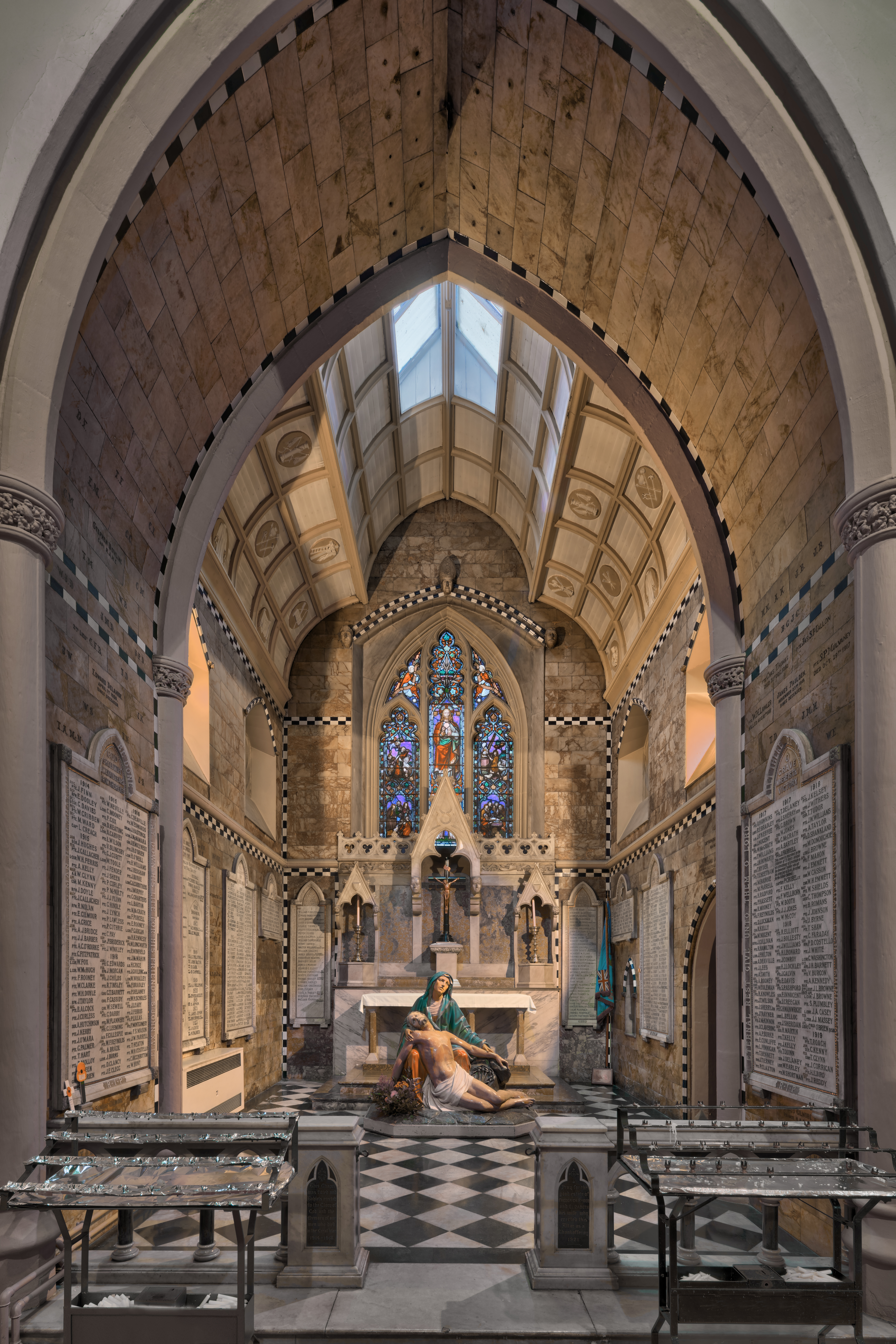 Here is an hdr photograph taken from the memorial chapel inside Salford Cathedral. Located in Salford, Greater Manchester, England, UK.